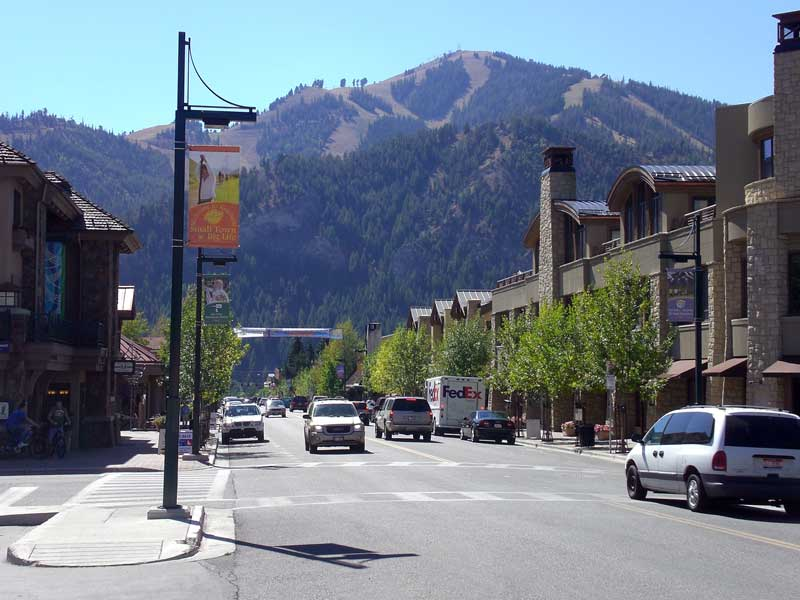 Sun Valley's Bald Mountain ski area as seen from Sun Valley Road in Ketchum, Idaho. Photo by Stephen Marks 09/2007